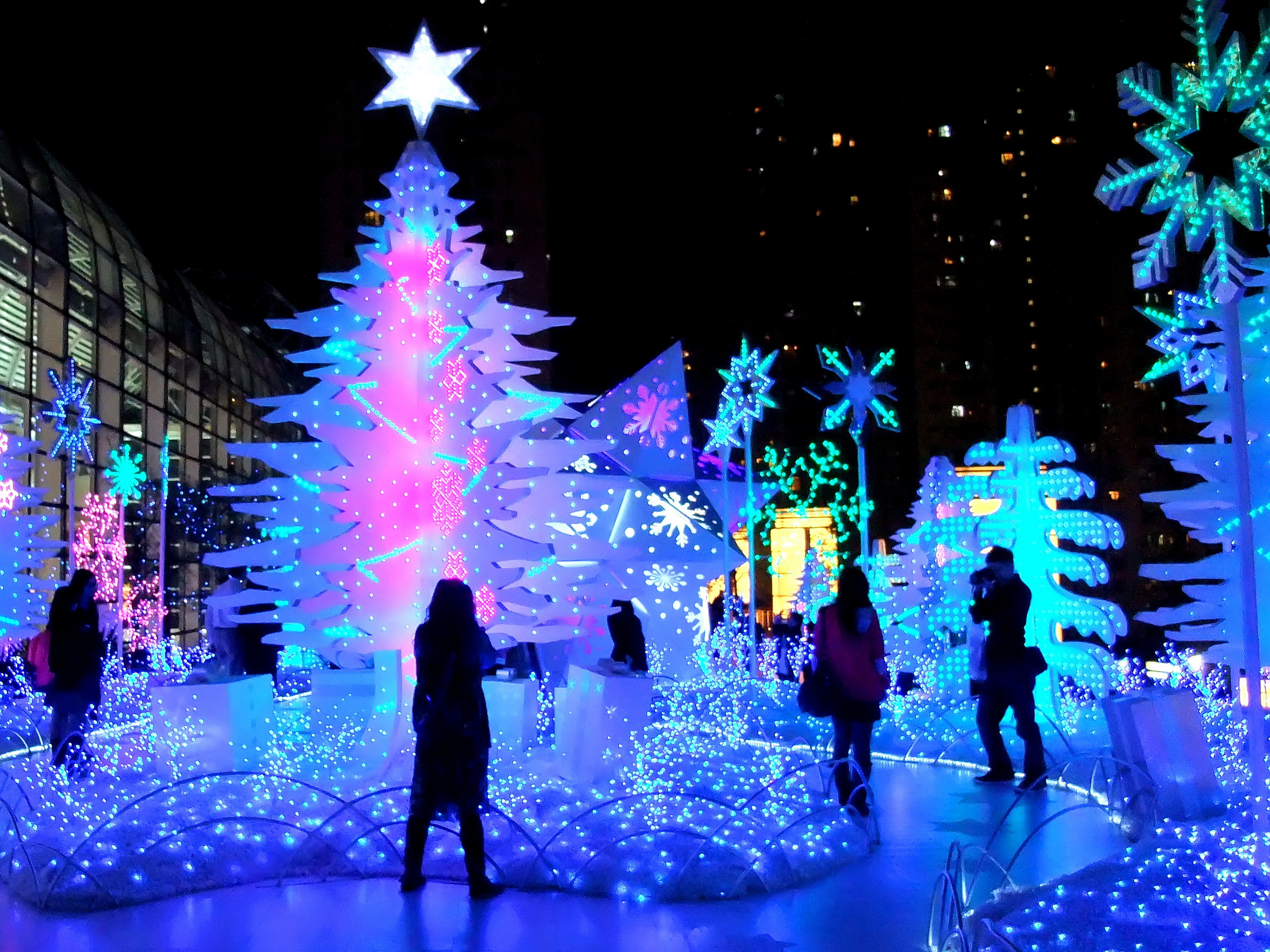 Starlight Garden, New Town Plaza, Sha Tin, Hong Kong (Dec 2010)